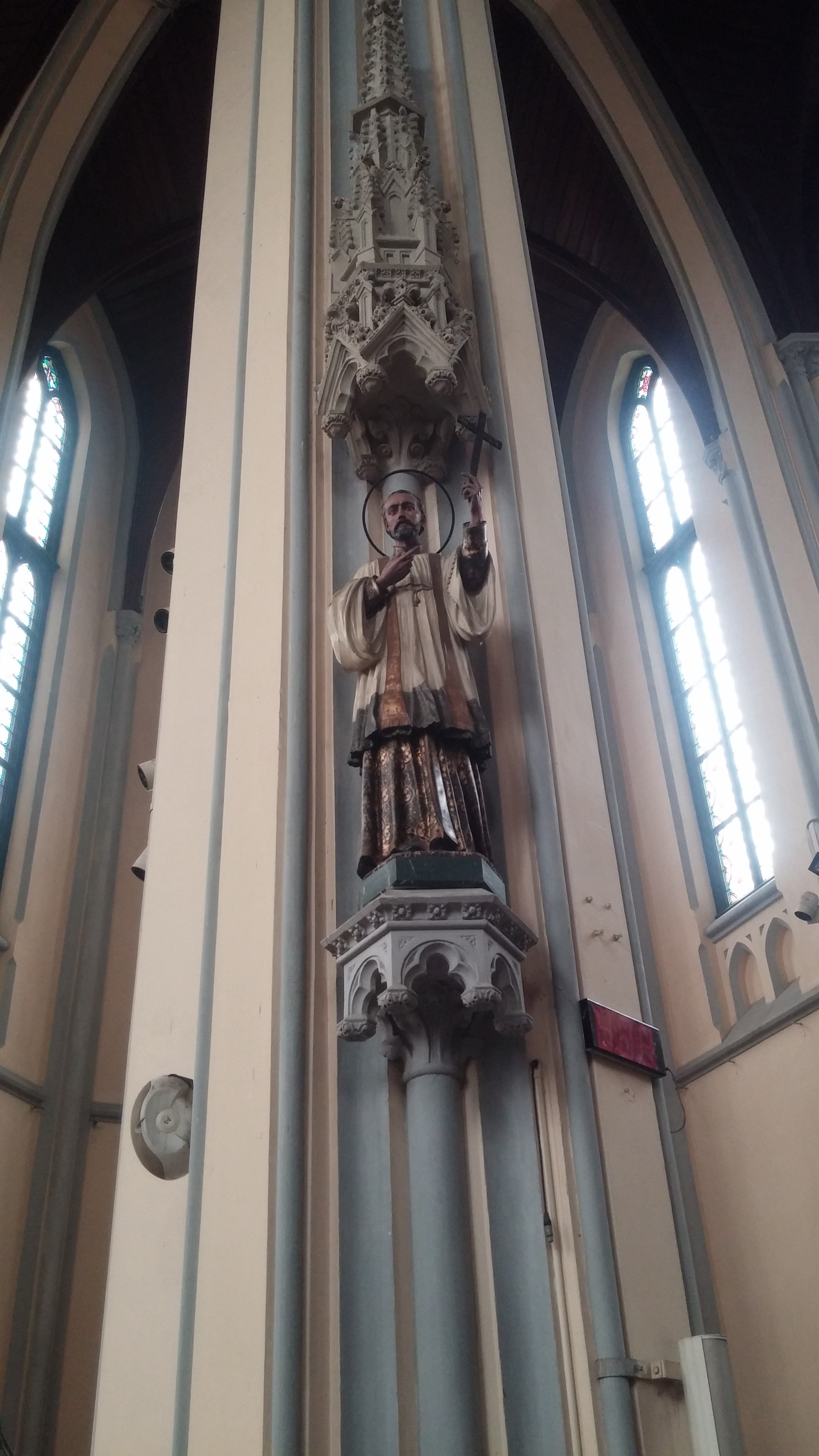 Saint Francis Xavier statue, Jakarta Cathedral (Saint Mary of the Assumption Cathedral, Jakarta), Indonesia